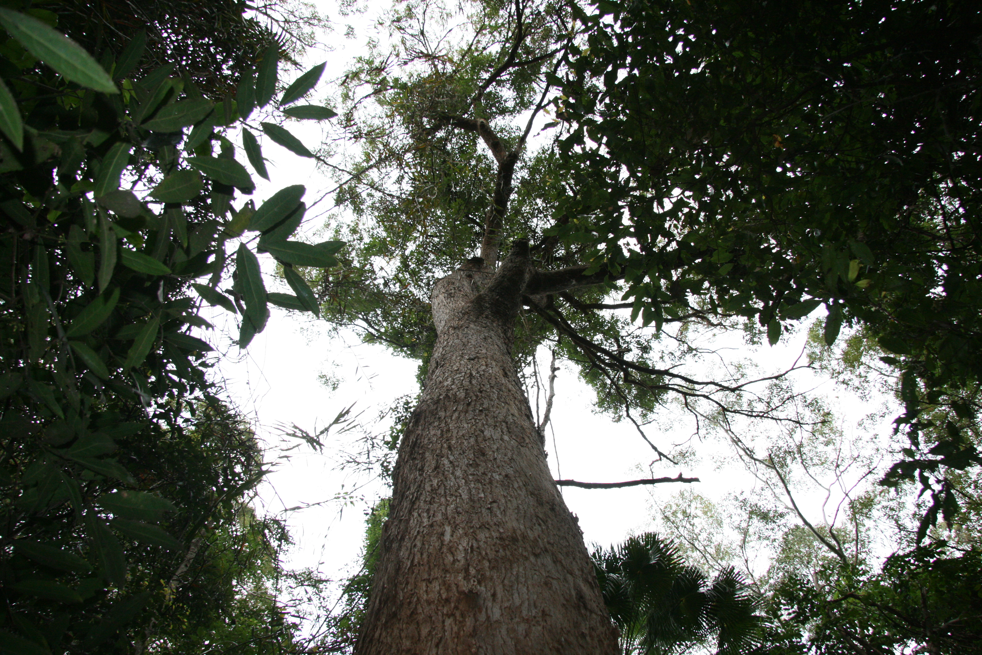 Eucalyptus microcorys, Alex Forest Conservation Area, Alexandra Headland, Sunshine Coast